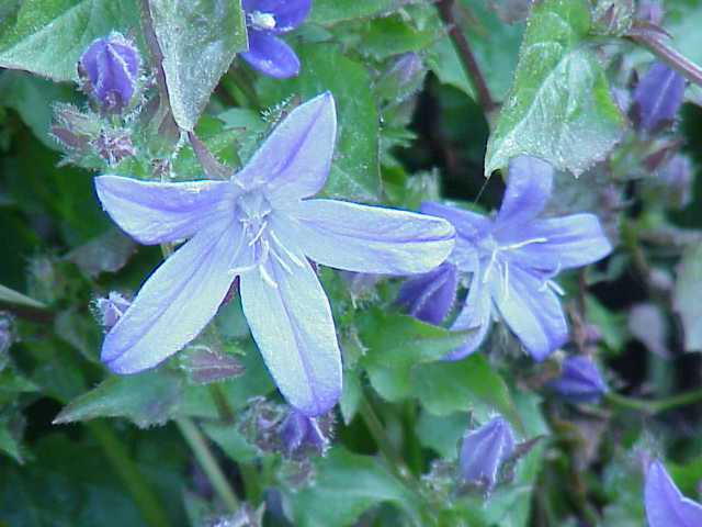 Species: Campanula poscharskyana (file name misleading because of wrong ID by original author) Family: Campanulaceae Image No. 1